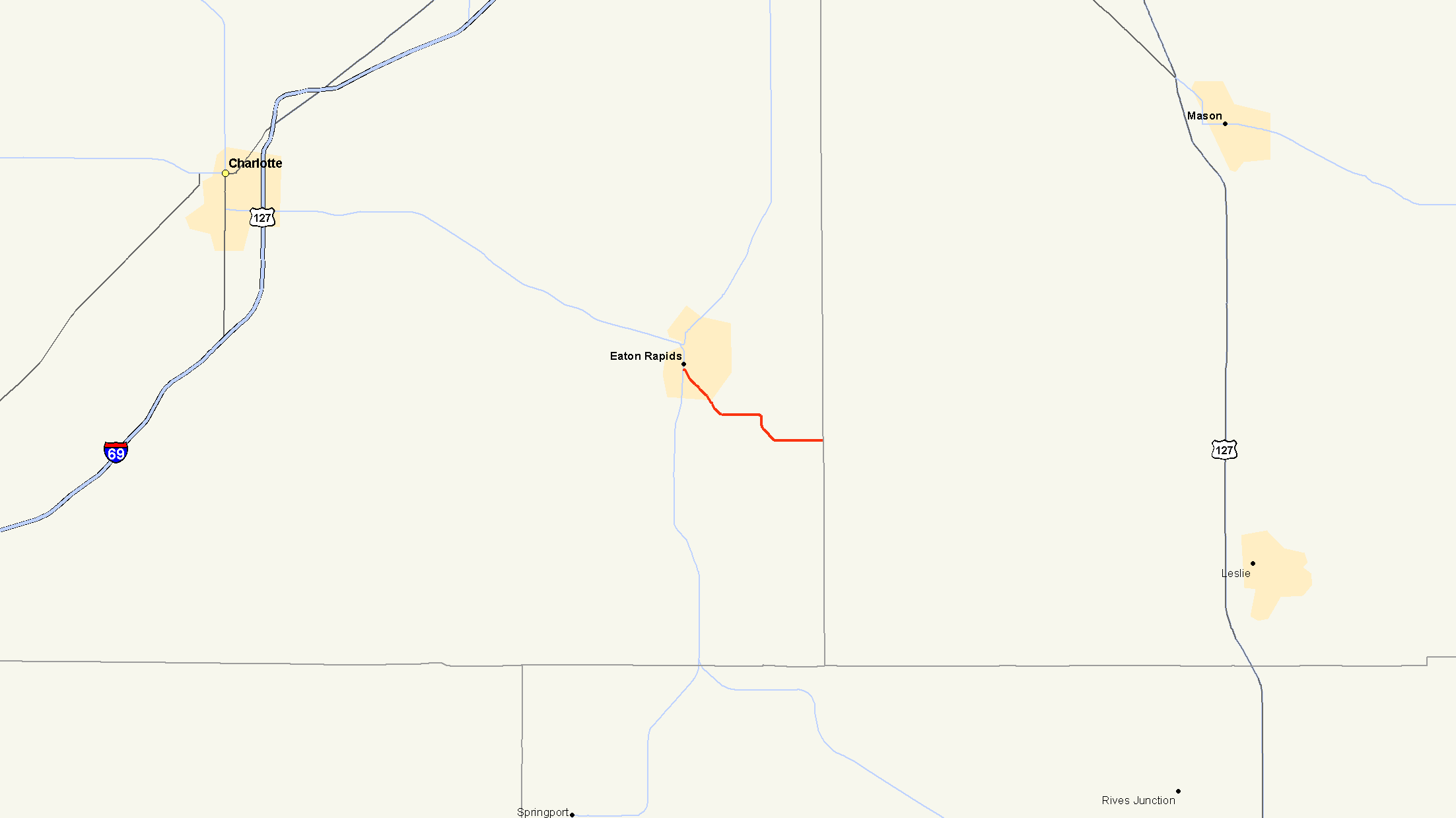 Map of M-188